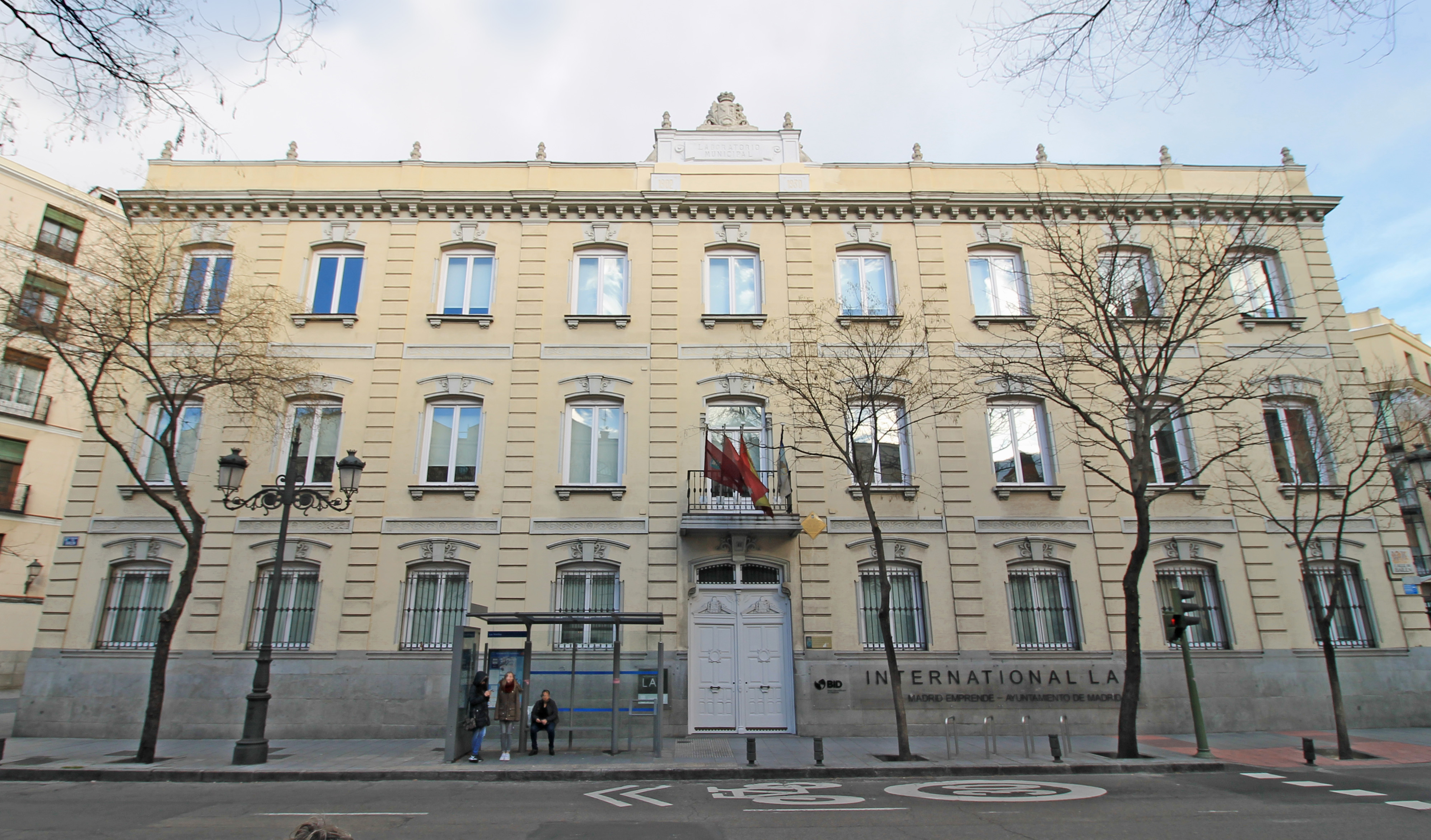 Former Municipal Laboratory of Madrid (Spain).